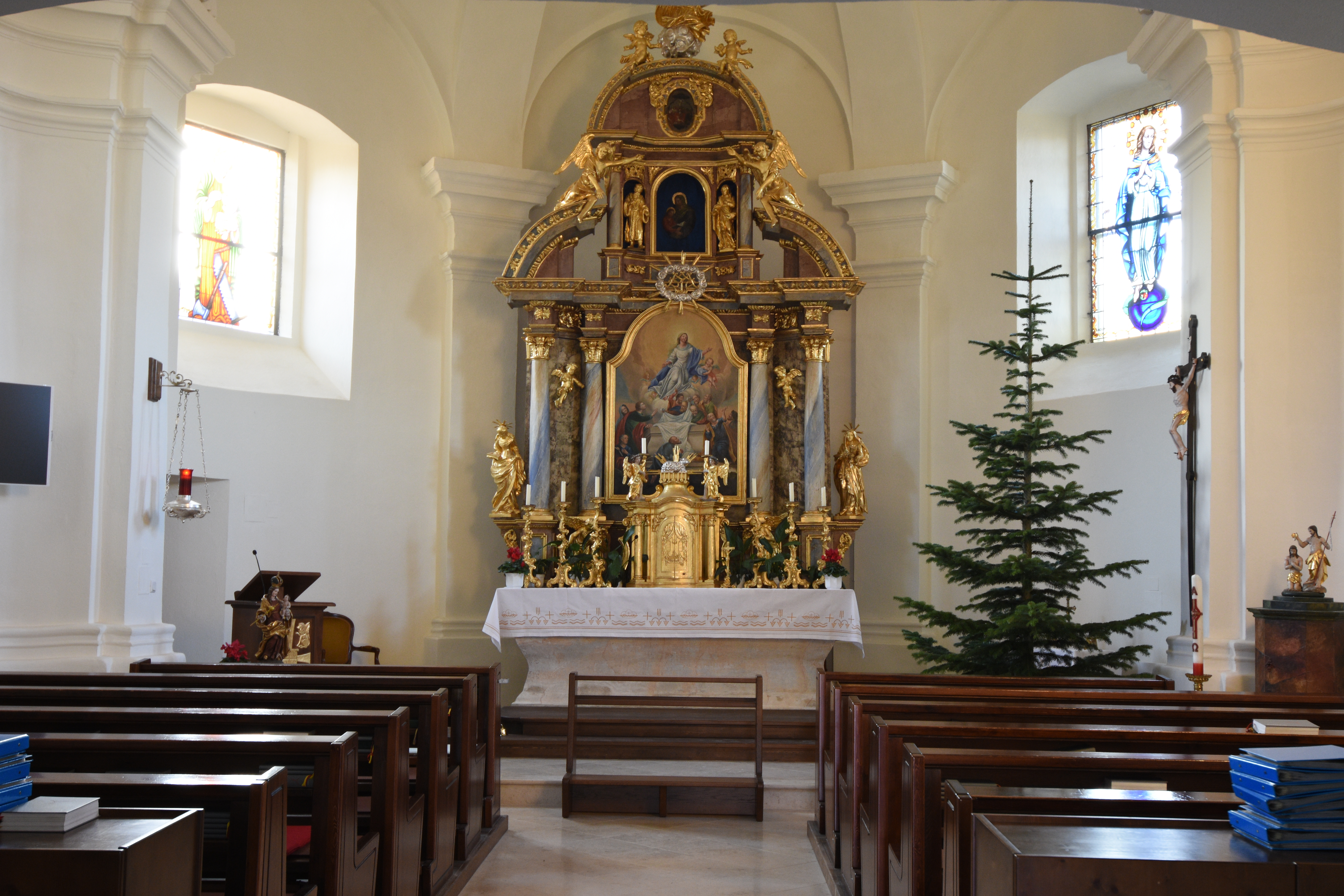 Church Ollersdorf im Burgenland Interior